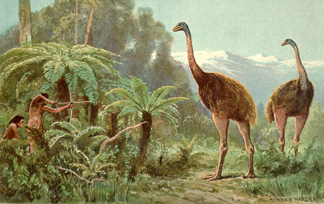 Moa. Unfortunately, poor Heinrich Harder seems not to have known that the Maori did not use bows and arrows.